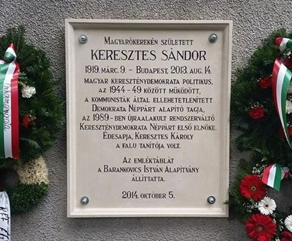 Memorial plaque of Sandor Keresztes (1919-2013) in Magyarokereke